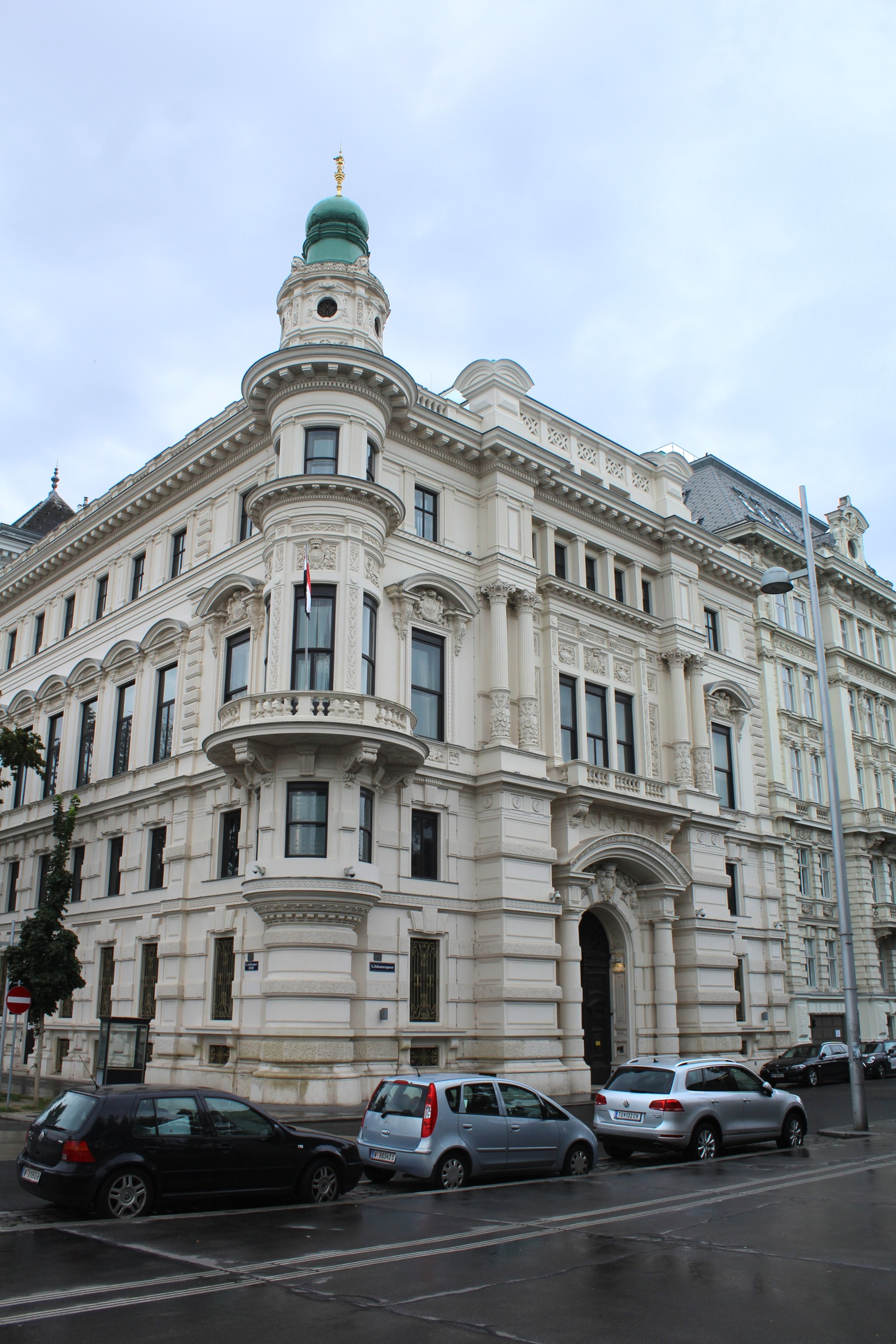 Vienna-City Park, palace 26 Johannesgasse